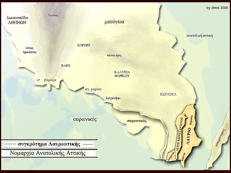 Map of Lavreotiki, Attica, Greece